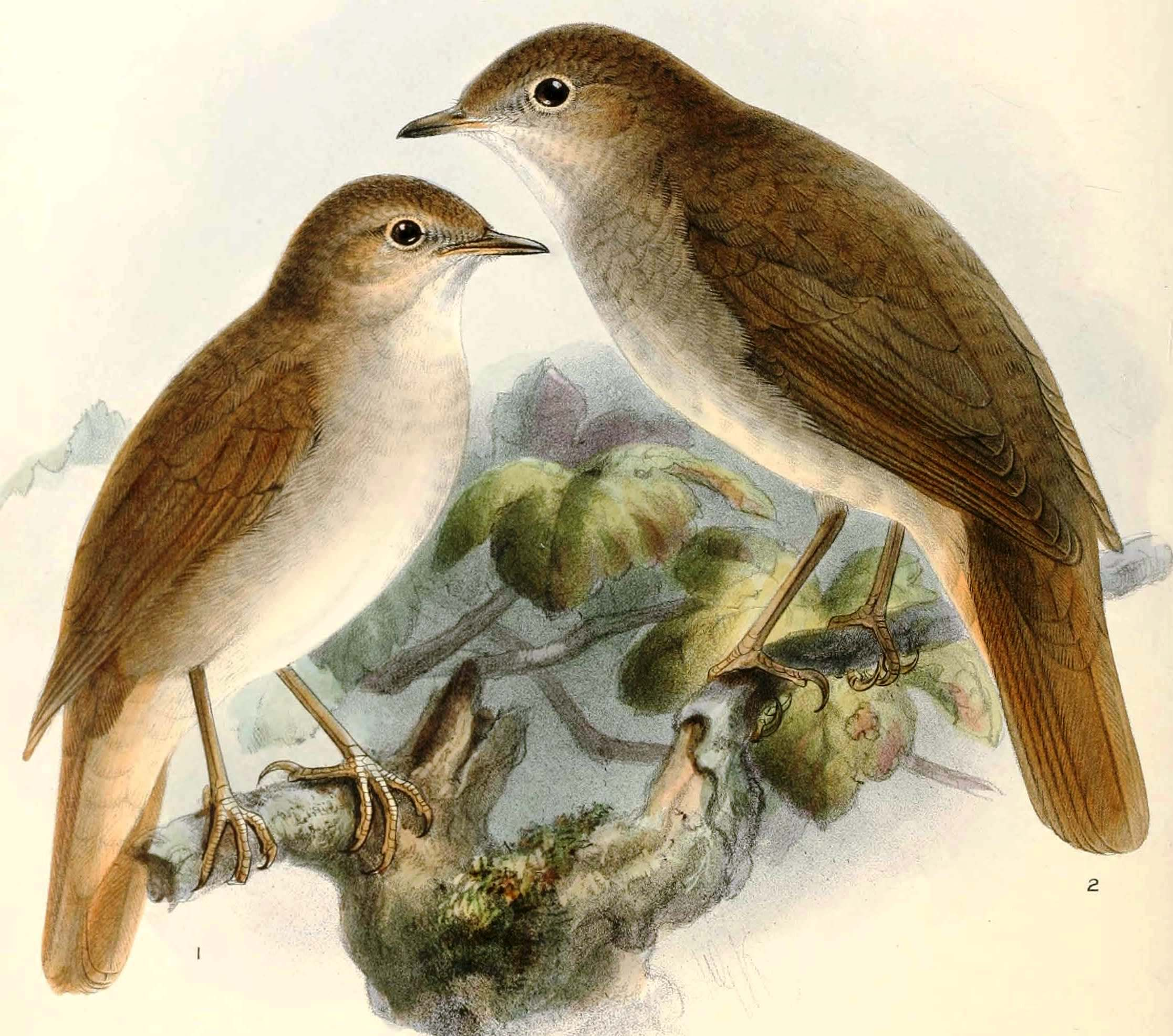 1. Luscinia megarhynchos 2. Luscinia luscinia